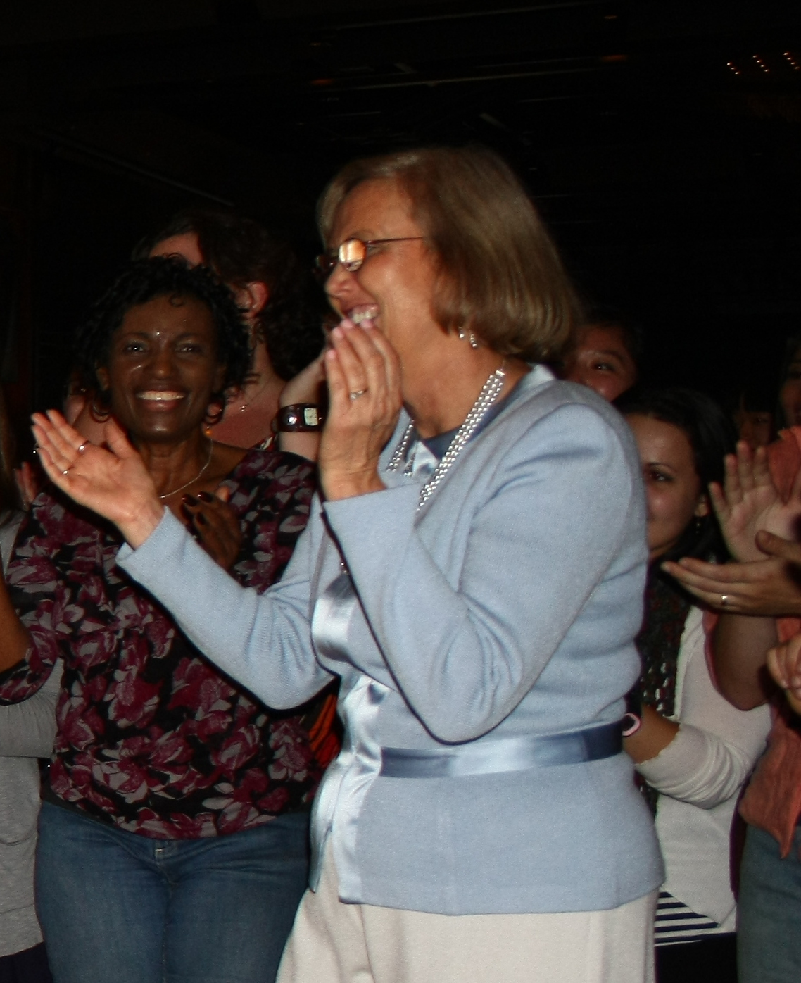 Telle Whitney dancing at Grace Hopper Conference 2010